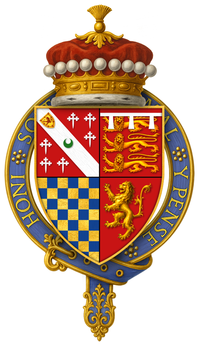 Garter-encircled shield of arms of Edmund Bernard FitzAlan-Howard, 1st Viscount FitzAlan of Derwent, KG, as displayed on his Order of the Garter stall plate in St. George's Chapel.